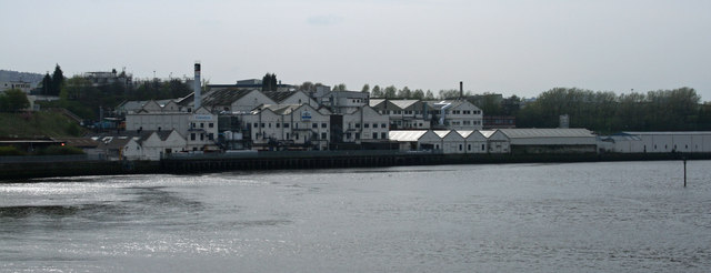 Felling Shore The AkzoNobel coatings factory at Felling Shore on the River Tyne.